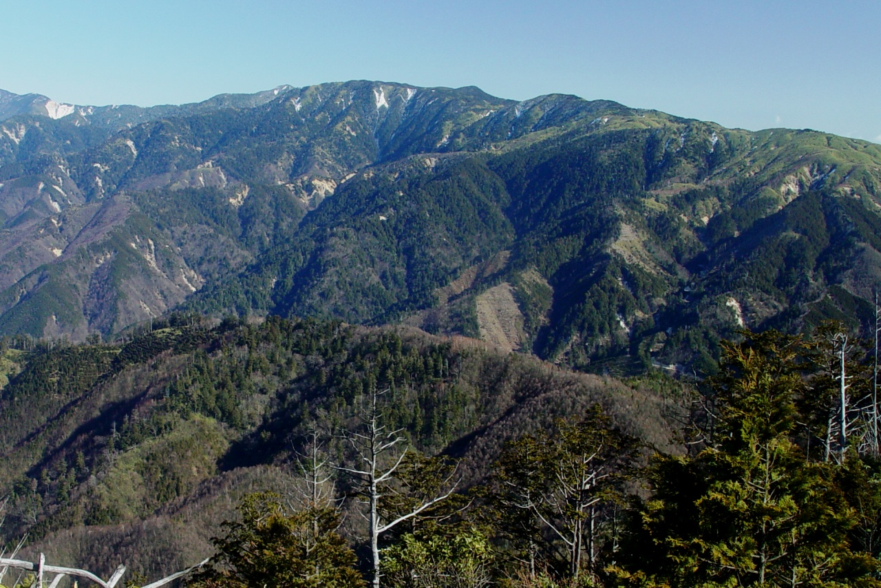 Mount Surikogi seen from Mount Nagiso, in Kiso Mountains, Japan.